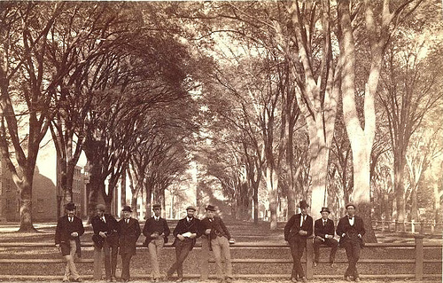 View of men sitting and leaning on the old Yale Fence, facing Chapel Street, New Haven, Connecticut. Photograph courtesy of the Yale University Manuscripts & Archives Digital Images Database, Yale University.